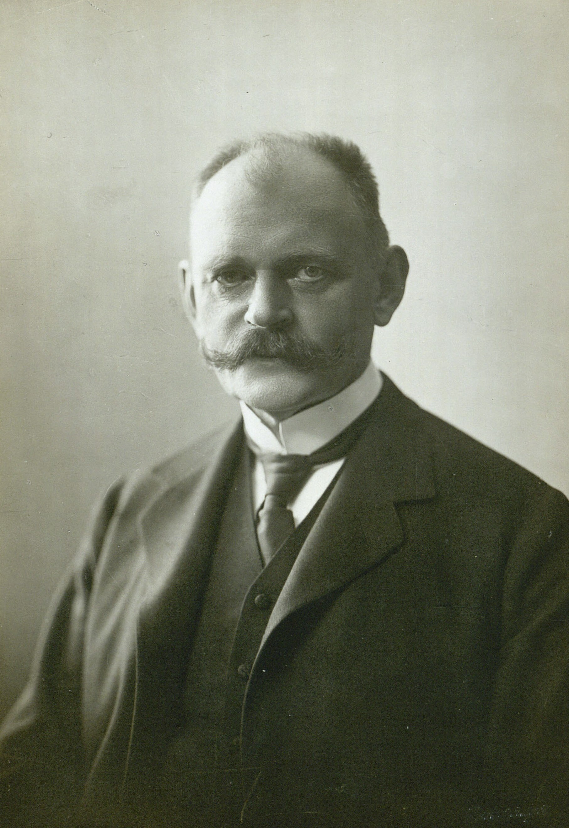 Niels Thomasius Neergaard (1854-1936), Prime Minister of Denmark, Defence Minister, Finance Minister, MP